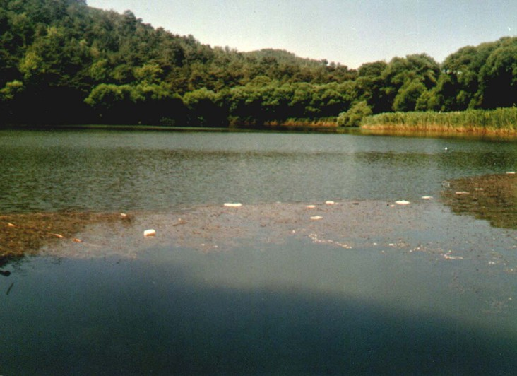 Lake Karagöl in Mount Yamanlar, İzmir, Turkey, associated with accounts surrounding Tantalus and sometimes referred to as Lake Tantalus